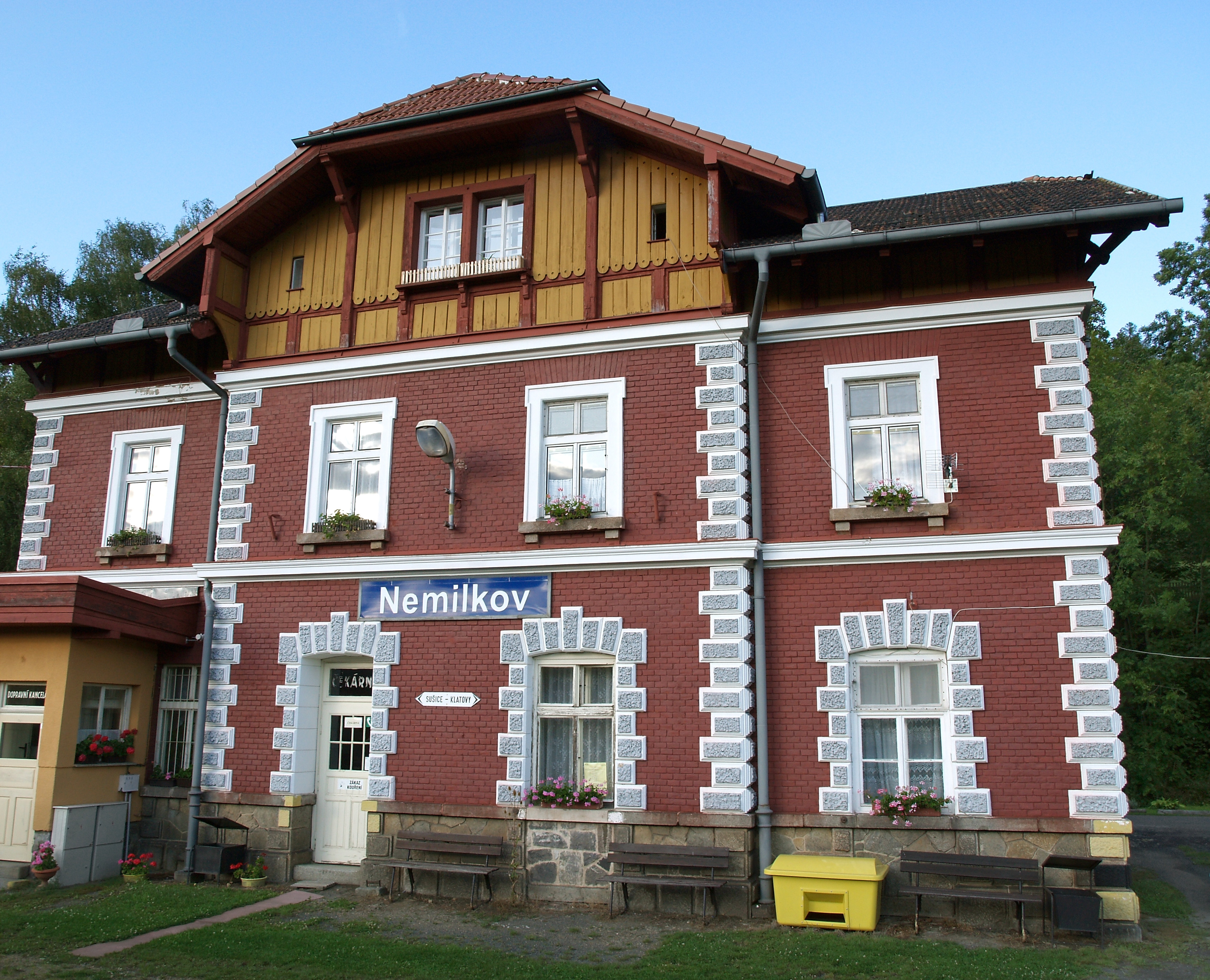 Czech village Nemilkov (part of Velhartice) – train station